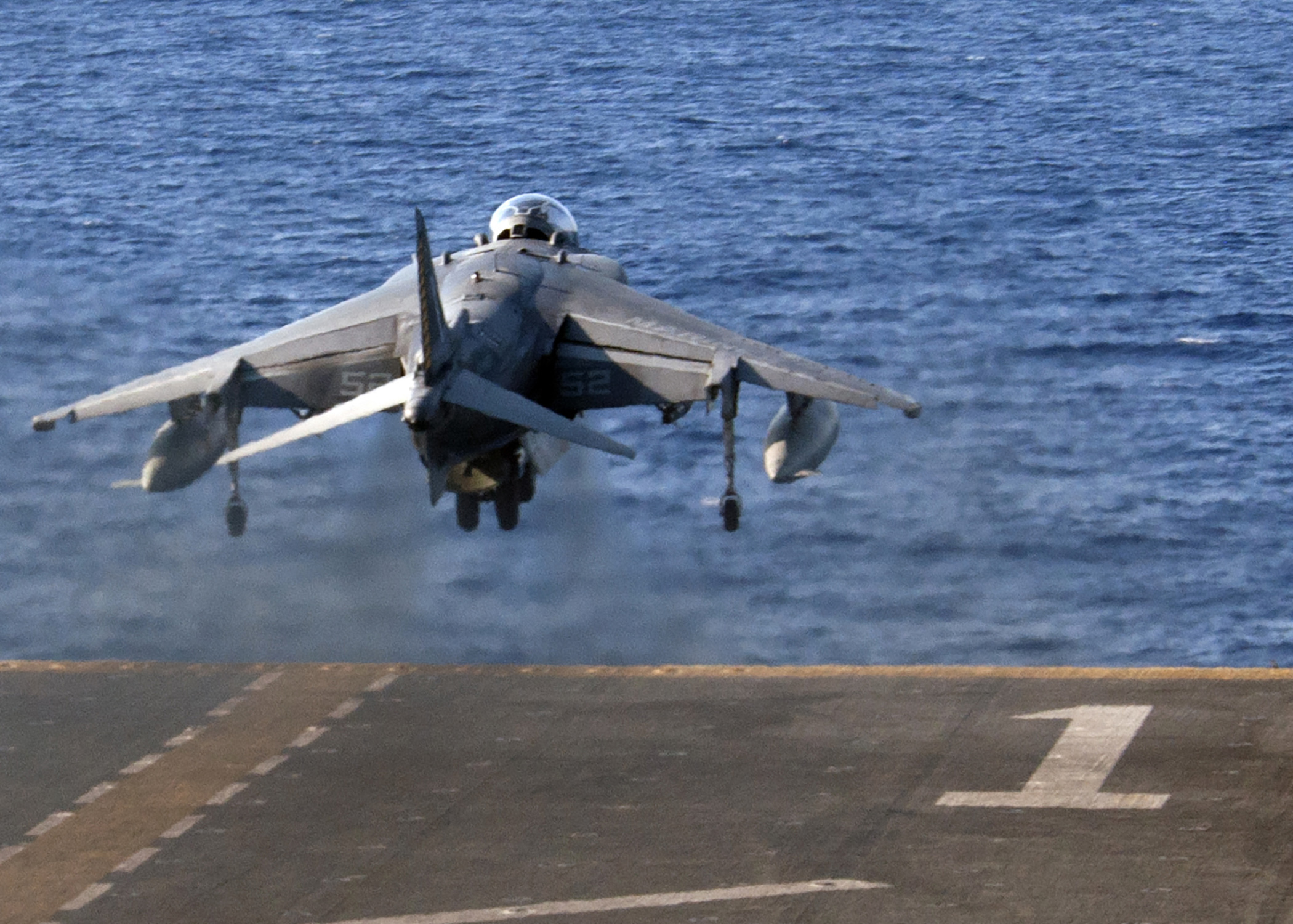 MEDITERRANEAN SEA (Aug. 10, 2016) An AV-8B Harrier, with the 22nd Marine Expeditionary Unit (MEU), takes off from the flight deck of the amphibious assault ship USS Wasp (LHD 1) Aug. 8, 2016. The 22nd MEU, embarked on Wasp, is conducting precision air strikes in support of the Libyan Government of National Accord-aligned forces against Daesh targets in Sirte, Libya, as part of Operation Odyssey Lightning. (U.S. Navy photo by Mass Communication Specialist 3rd Class Rawad Madanat/Released)160810-N-JW440-083 Join the conversation: navylive.dodlive.mil